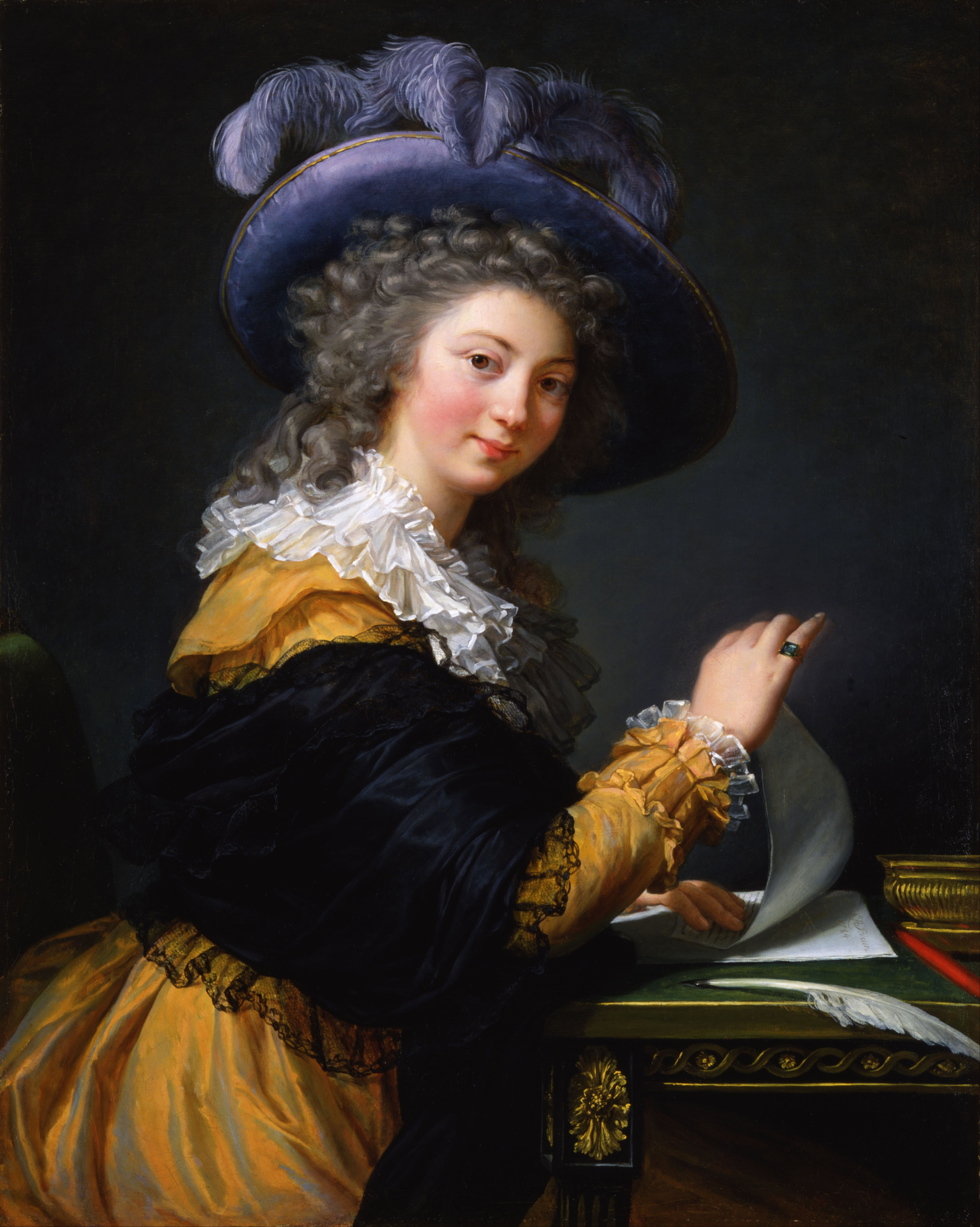 Former title (from 1963 to 1992) „Lady Folding a Letter“